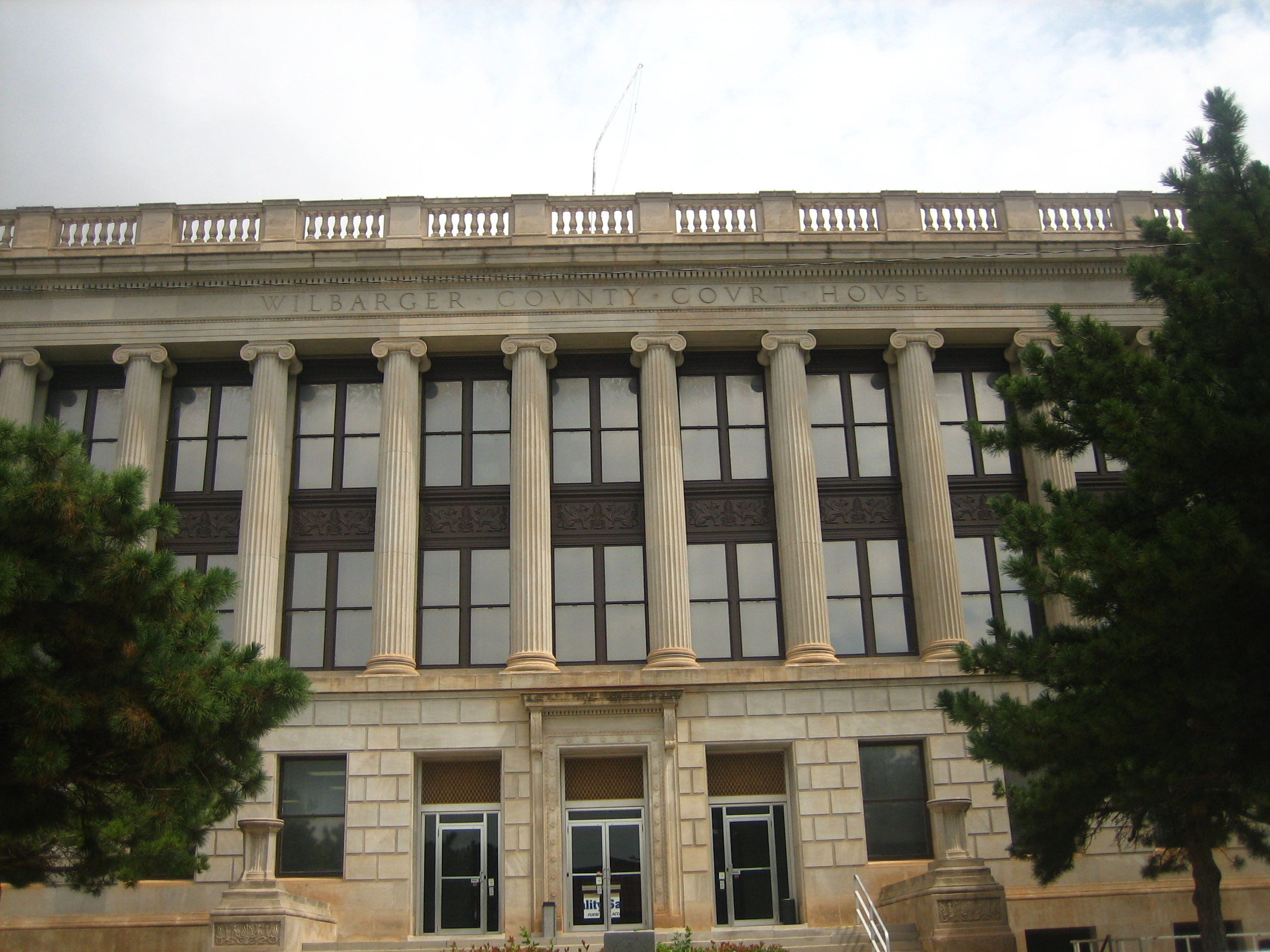 The Wilbarger County, Texas Courthouse located at 34.1531° -99.2836°, Vernon, Texas, United States was built in 1932. I took photo in July 2008.Billy Hathorn (talk) 23:25, 4 July 2009 (UTC)